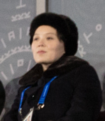 Photograph of Kim Yo-jong attending the opening ceremony of the 2018 Winter Olympics on 9 February 2018